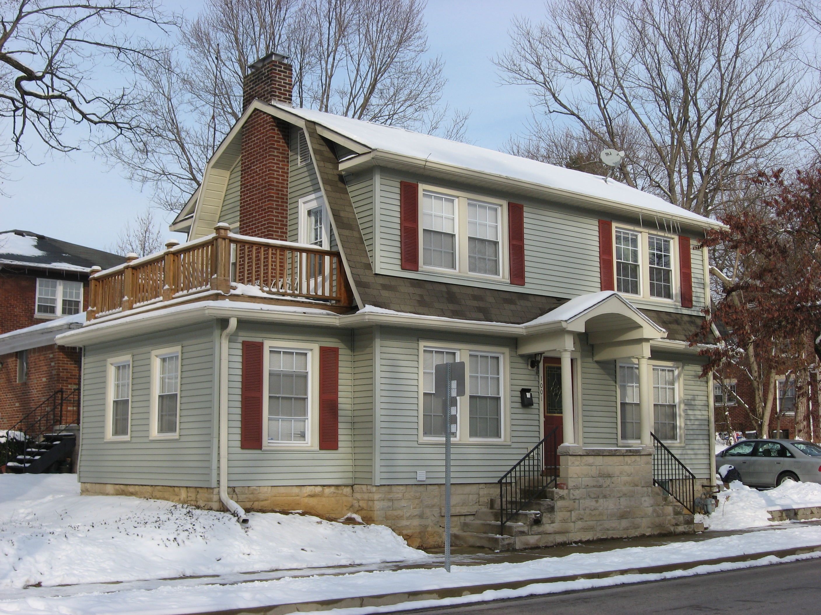 Front of the Muller House, located at 1001 E. First Street in Bloomington, Indiana, United States. Built in 1948 and the home of Hermann Joseph Muller, it is a part of the Vinegar Hill Historic District, a historic district that is listed on the National Register of Historic Places.